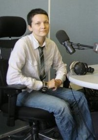 Photo taken August 26, 2009, in the studio of the Radio Russian News Service which organized a debate right after the hearing of the marriage case of Irina Fedotova-Fet and Irina Shipitko. The photo shows Nikolai Alekseev and Irina Fedotova-Fet and Irina Shipitko.